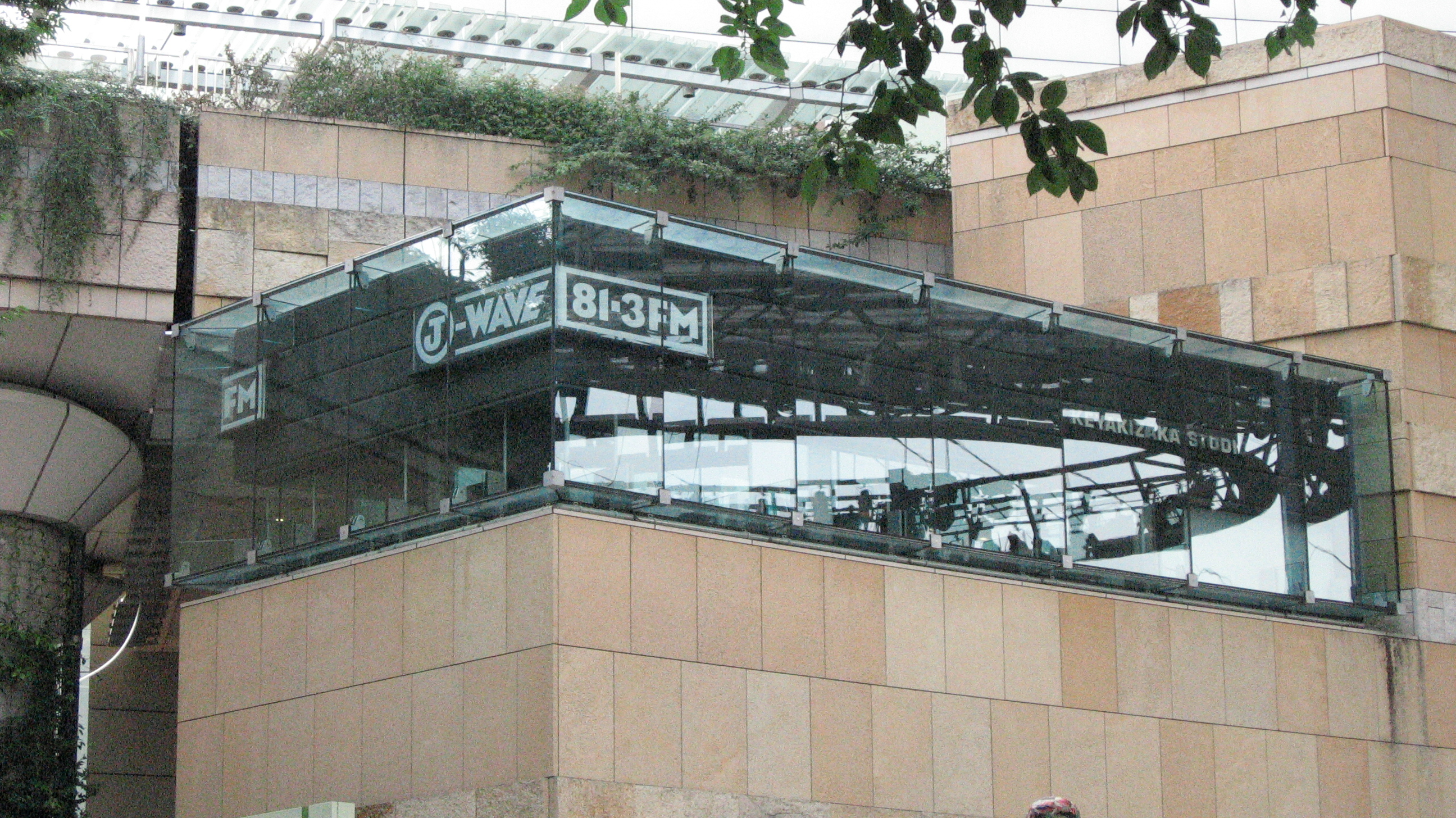 J-WAVE Keyakizaka Studio.